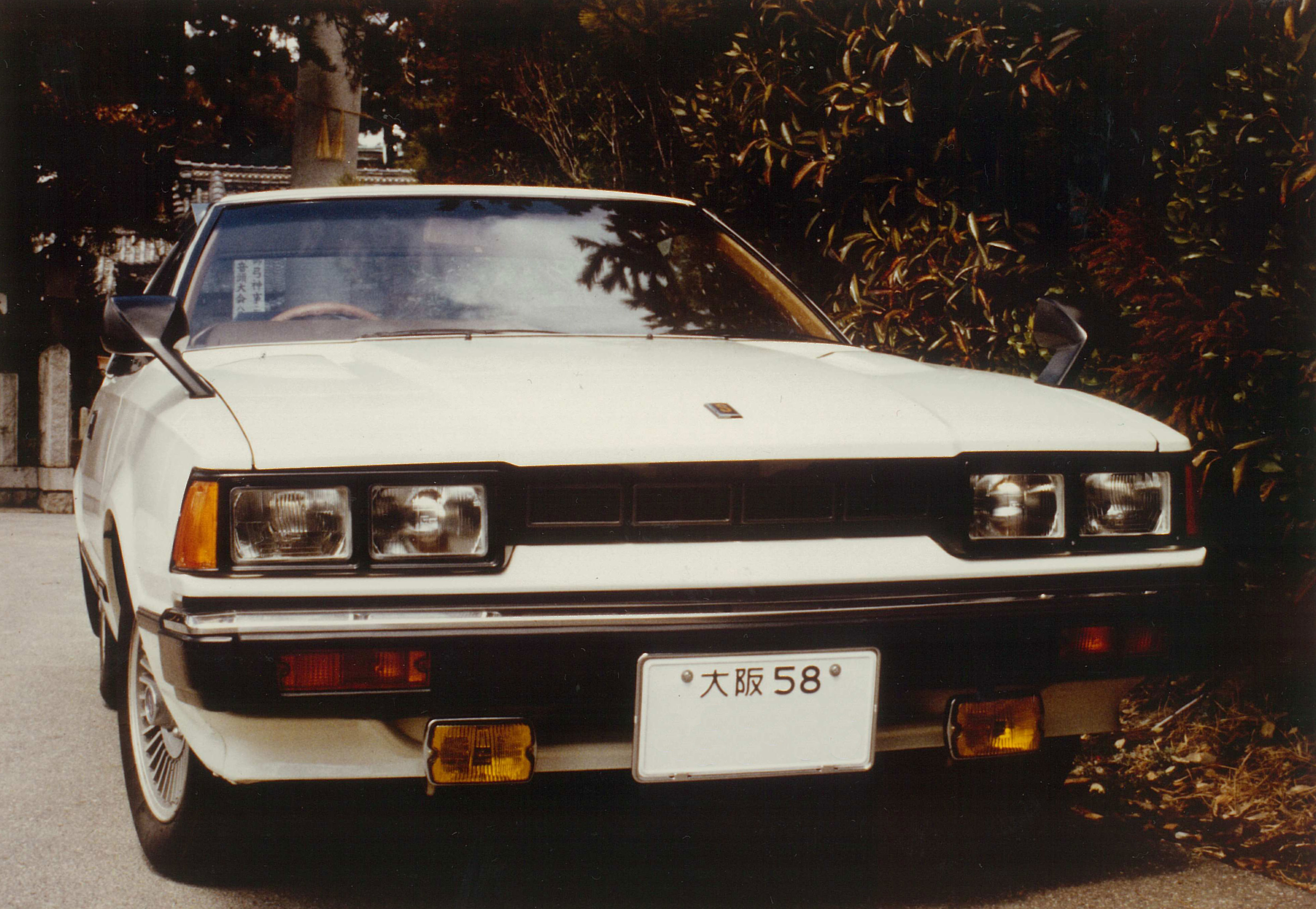 It is My Car which it photographed in Osaka.